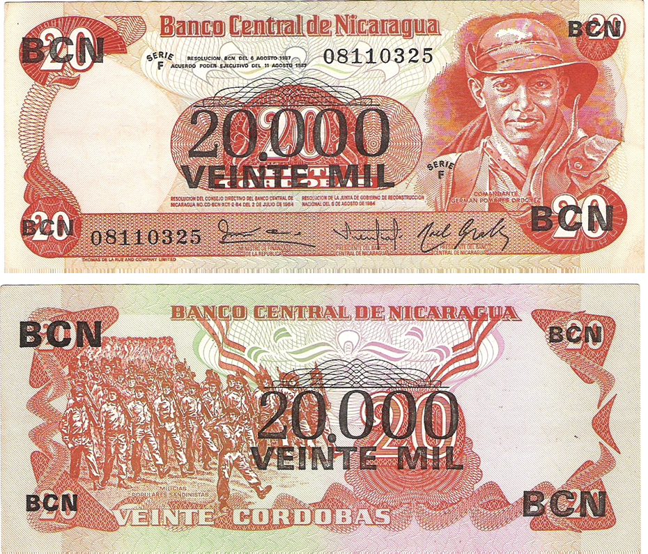 C$20,000 córdobas showing Cmdt. German Pomares Ordoñez, Reverse-Milicias Populares Sandinistas. (1987), Overprinted on unissued 20 Córdobas Serie F.